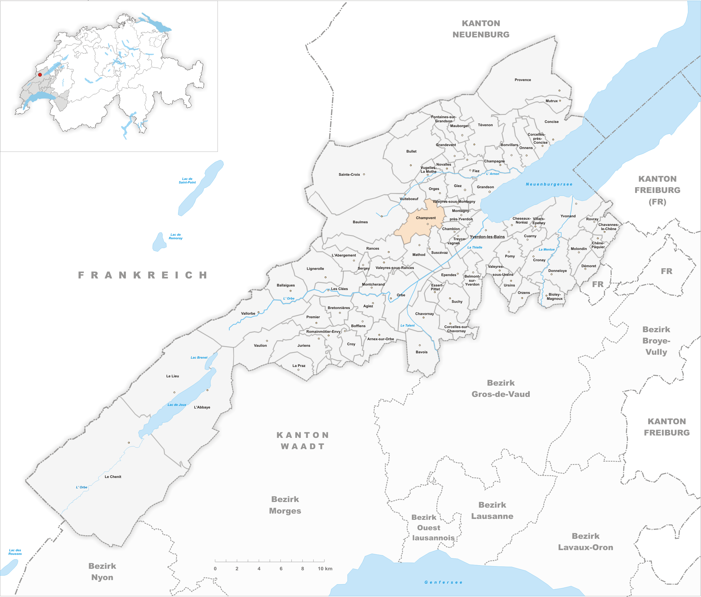 Municipality Champvent